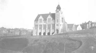 Photo of the previous Hastings Grammar School building, taken around 1900. It was built in 1883 and demolished in 1965/66 to be replaced by another building.[1] It was designed by John Howell, son of the Hastings builder and architect who founded the firm of John Howell & Son.[2][3] ↑ Image of same building being demolished in 1965-1966 ↑ See Hastings Chronicle obituary of John Howell, (ca.1824-1893) ↑ See Hastings Chronicle: Prominent businessman acquitted of perjury, 1883